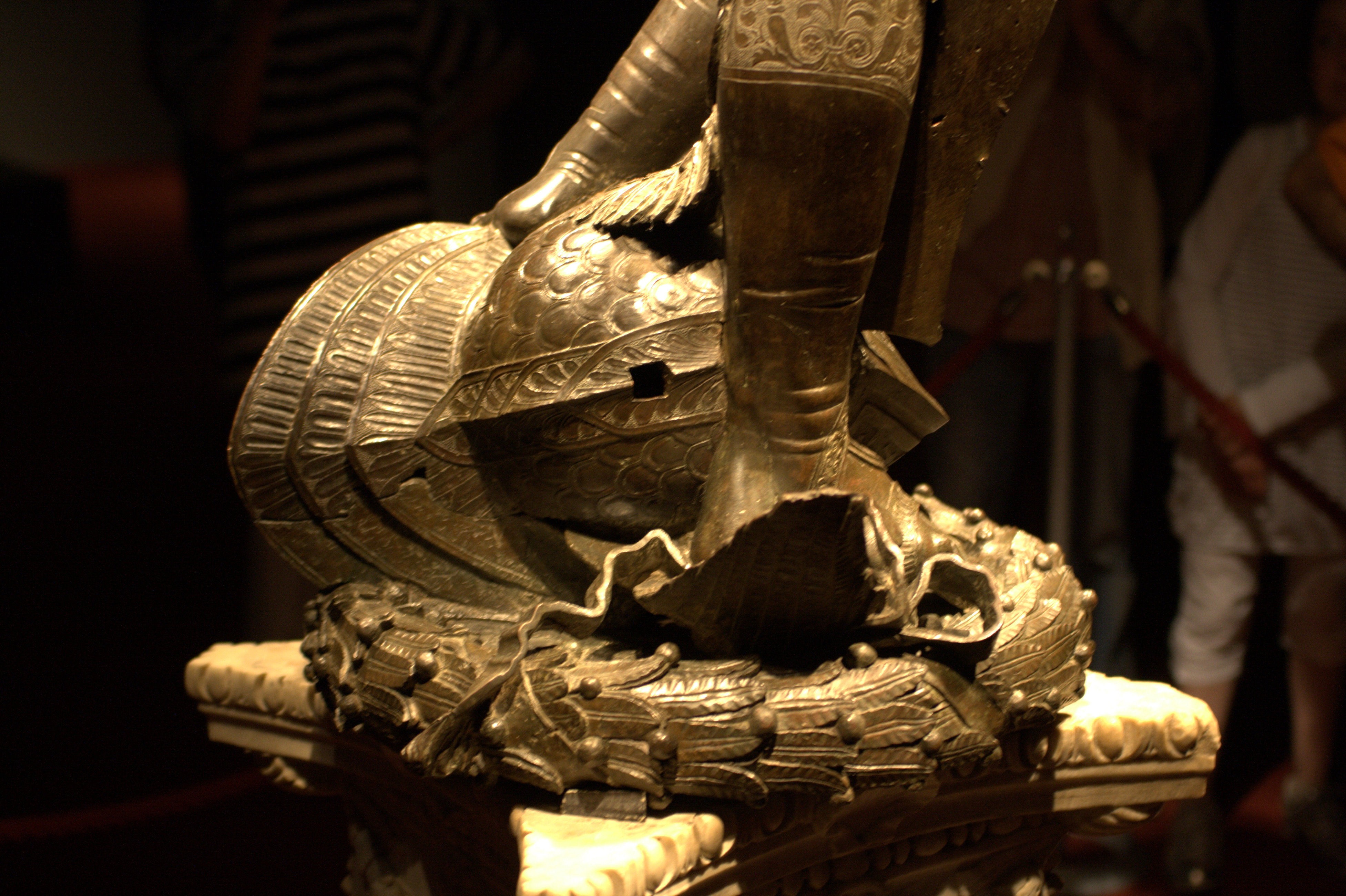 see abovesee above